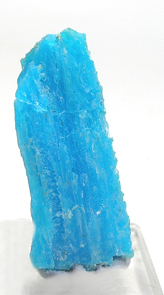 Kröhnkite Locality: Chuquicamata Mine, Chuquicamata District, Calama, El Loa Province, Antofagasta Region, Chile (Locality at ) This lamellar cluster of vertical crystals grown against one another is truly spectacular, for color; but more than that has a significance for this now-defunct locality , which produced a suite of amazing copper species. RARE material in this quality and size! 4.1 x 1.6 x 1.4 cm